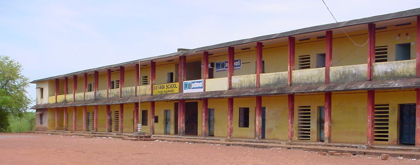 Original picture taken by me on June 2003 is cropped for better view.